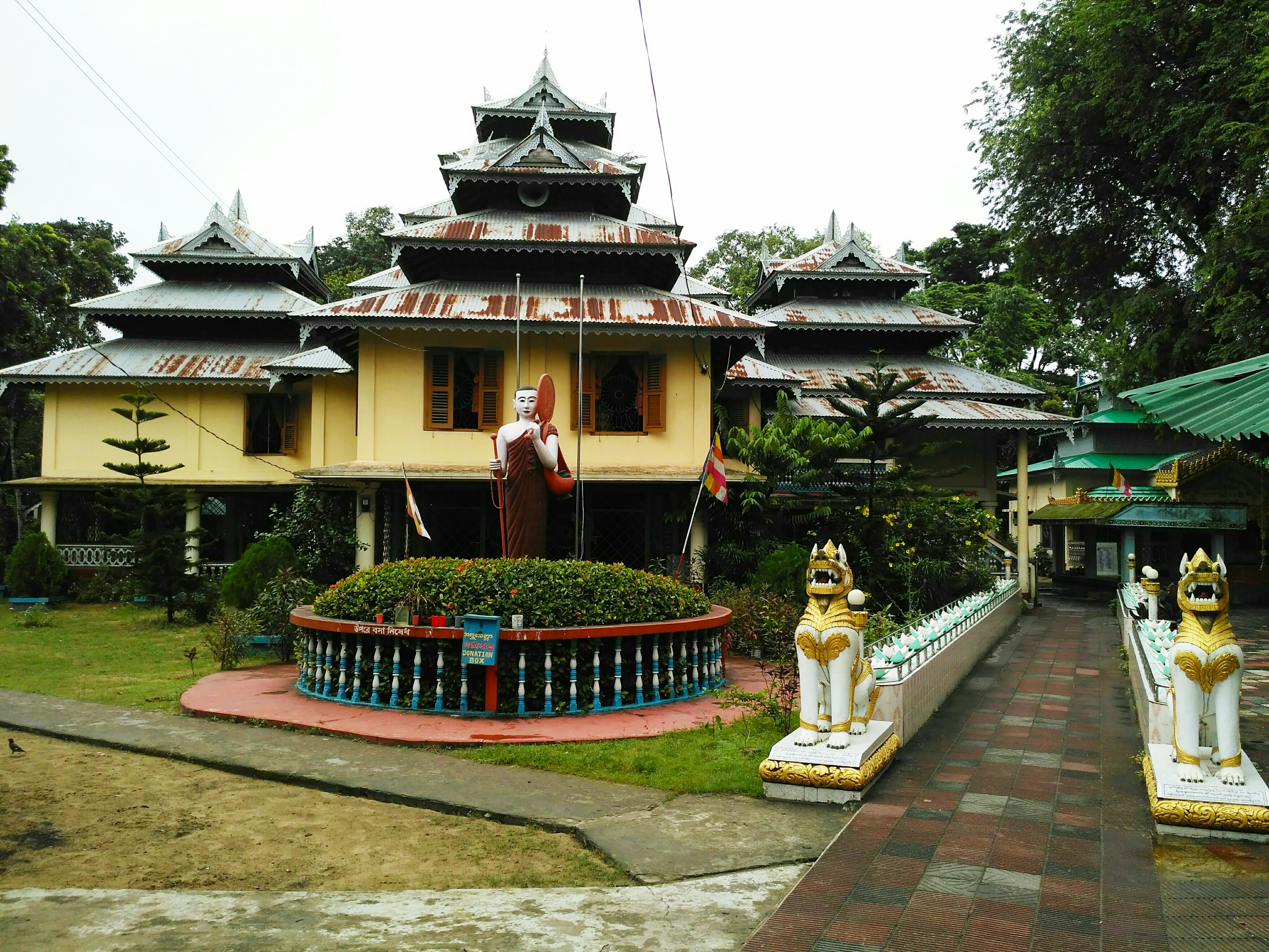 View of the Boro Rakhainpara Buddhist Monastery in Moheshkhali, Cox's Bazar. 2017.